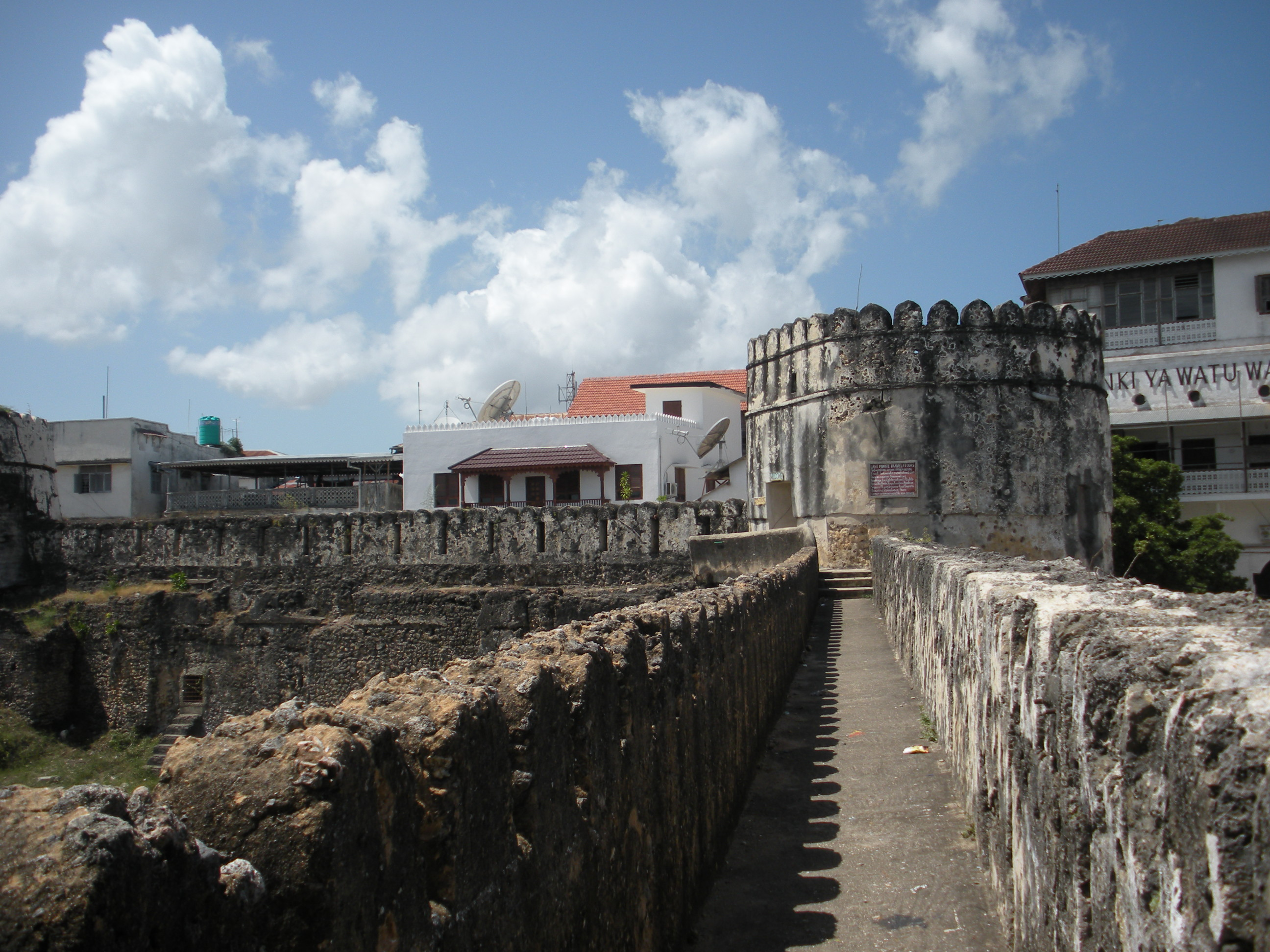 The old fort in Zanzibar.This photo has been taken by Mr.Chen Hualin.